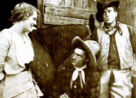 Still from the 1914 American western film Chip of the Flying U (1914) with Kathlyn Williams, Tom Mix, and Wheeler Oakman, on page 329 of the January 18, 1919 Moving Picture World for the 1919 reissue of the film.